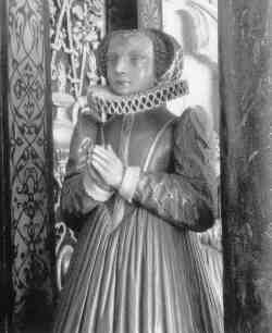 Effigy of Elizabeth de Vere